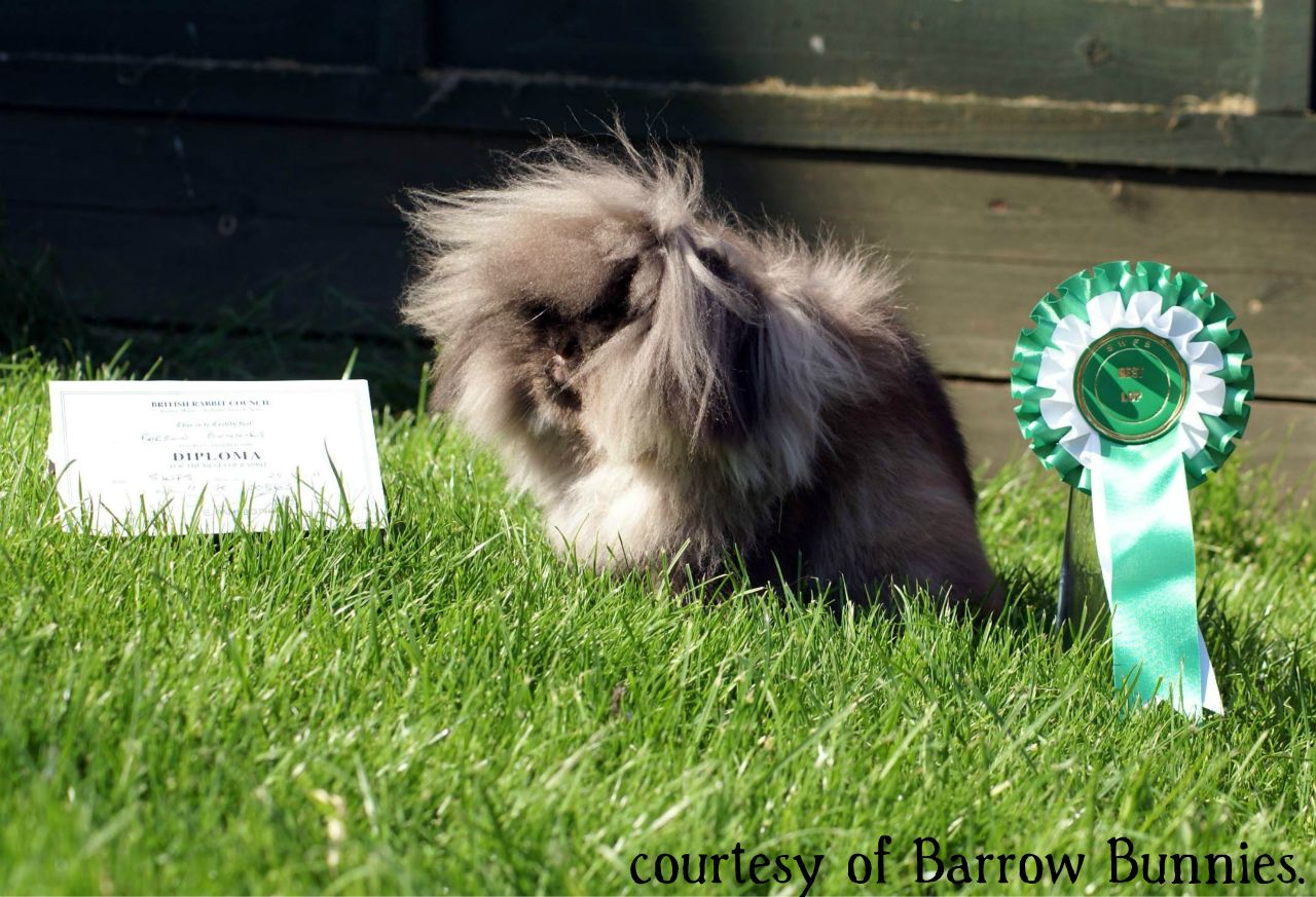 Barrow Bunnies PJ, Sable Mini Lion lop. Bred by Barrowbunnies, owned by Deborah Lucas Barrowbunnies.